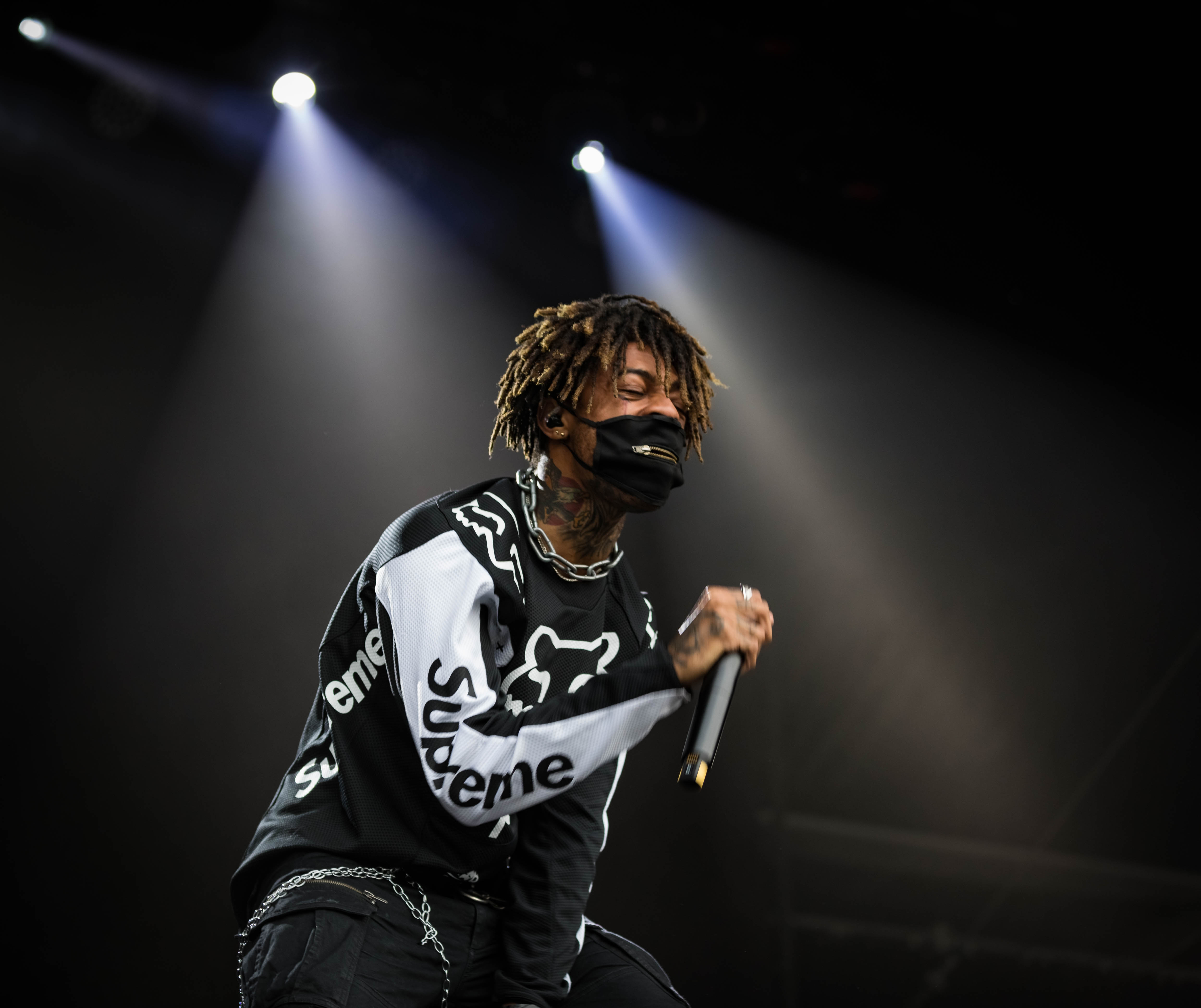 Scarlxrd - Rock am Ring 2018